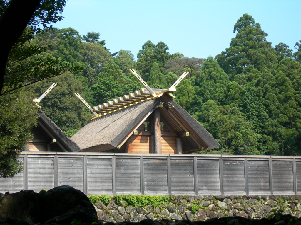 Kōtai-jingū (Naiku) at Ise city, Mie prefecture, Japan.